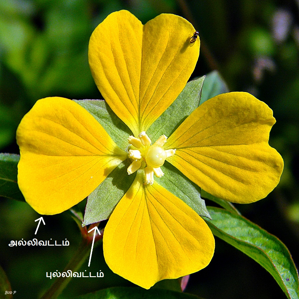 description of petals and sepals in tamil